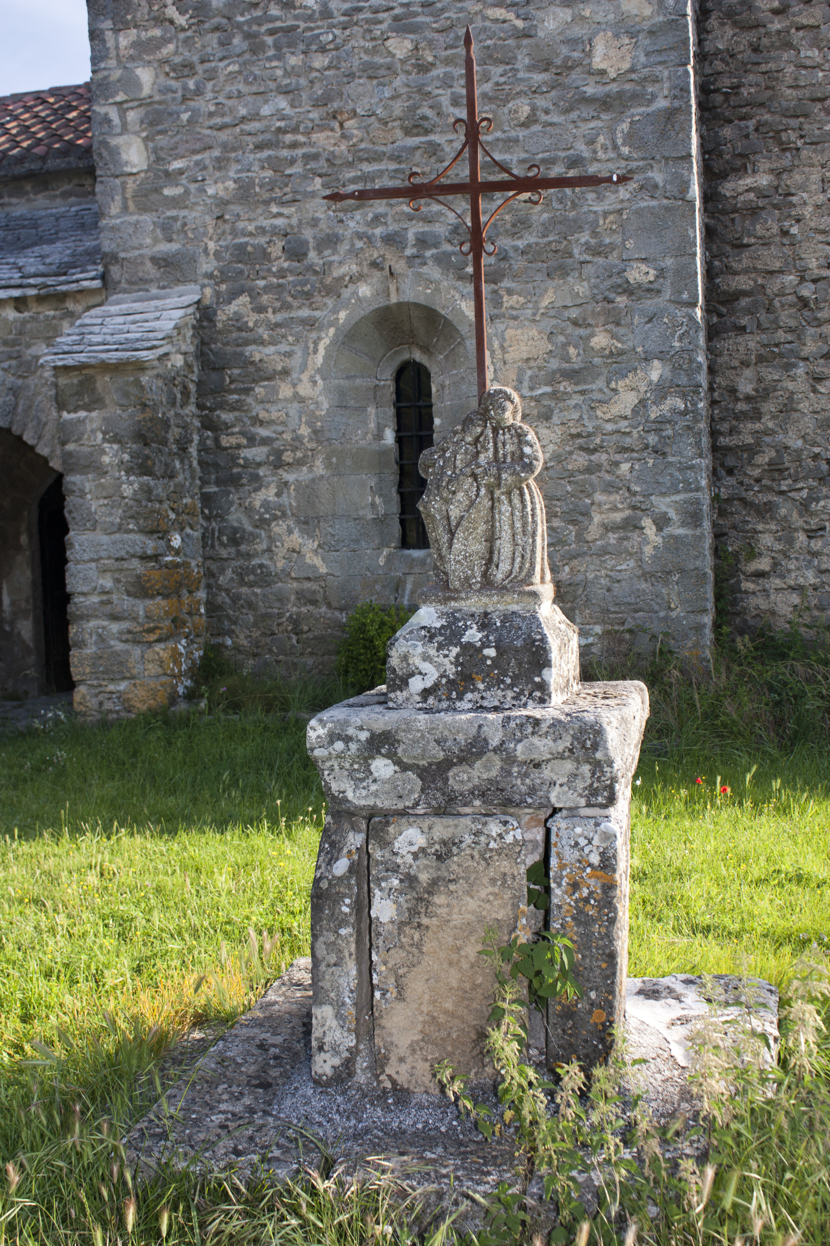 Calvary made of reuse.